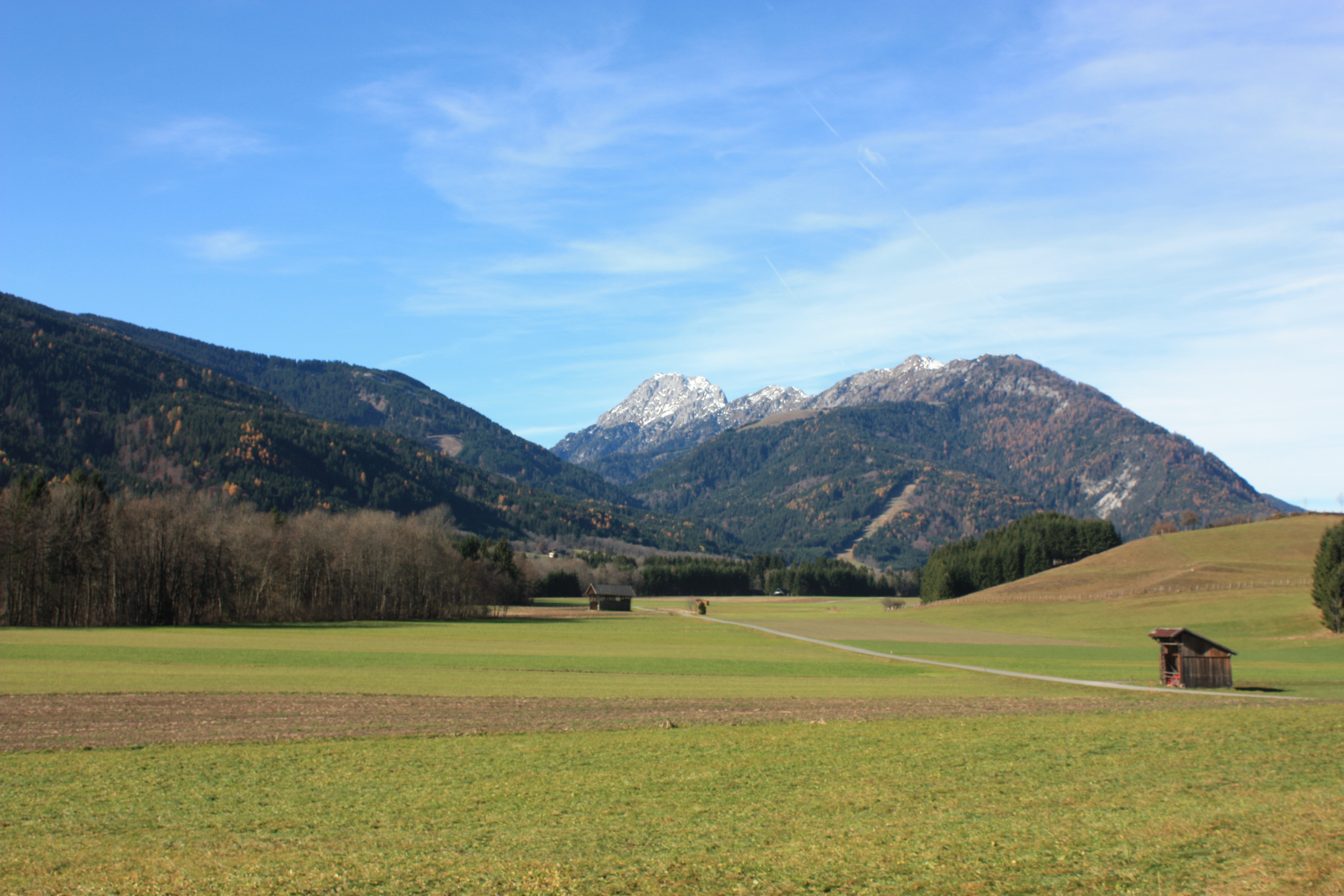 Gitschtal: View to Reißkofel